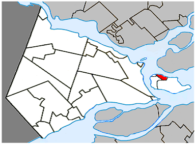 Location of L'Île-Perrot, Quebec within Vaudreuil-Soulanges Regional County Municipality.